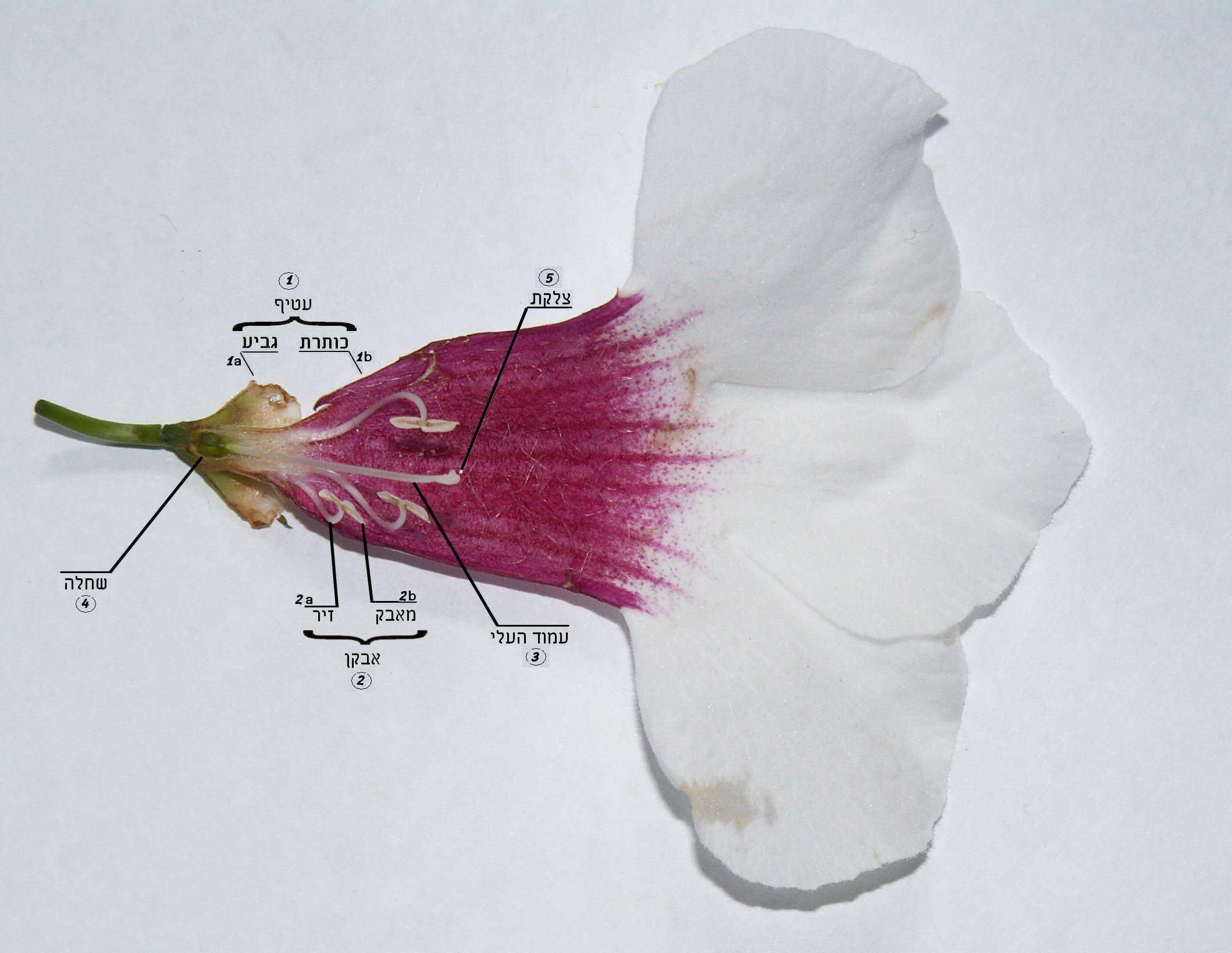 Parts of a Flower 1 perianth. 1a calyx. 1b corolla 2 stamen. 2a filament. 2b anther 3 style of the pistil 4 ovary 5 stigma of the pistil